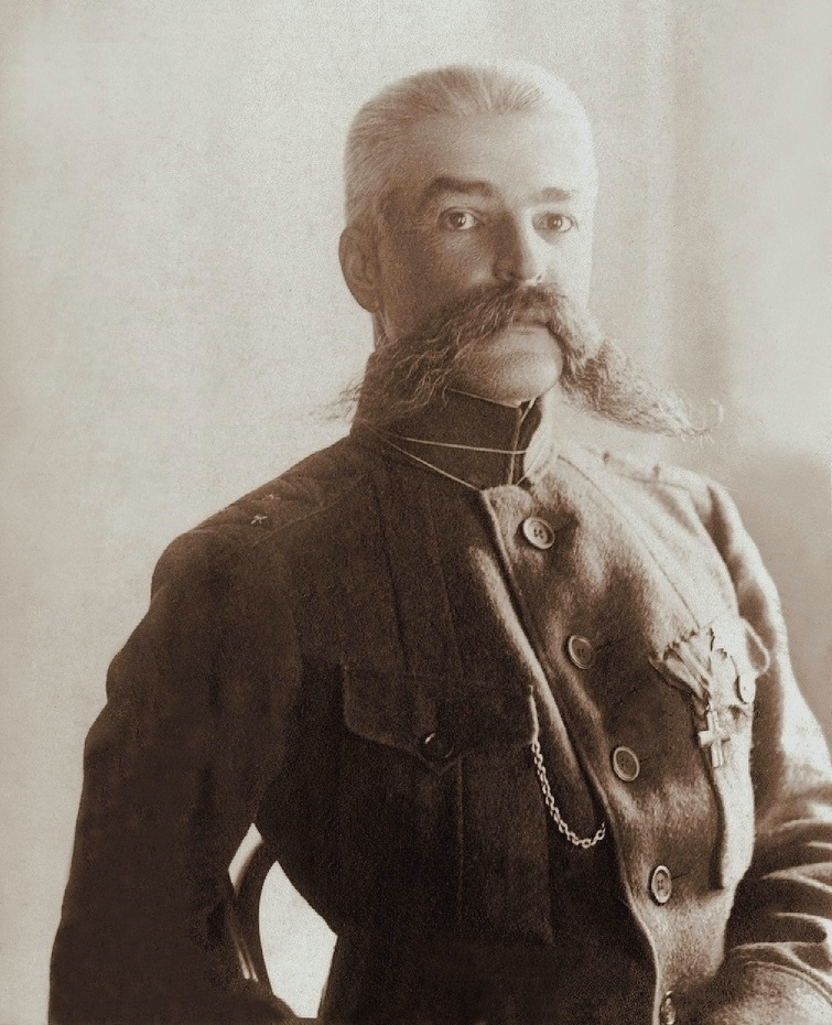 Mamontov (real name Mamantov) Konstantin Konstanninovich (1869—1920) — Russian military leader of Imperial Russian Army and of Don Army of the Don Republic and of the Armed Forces of South Russia, Lieutenant-General (1919).